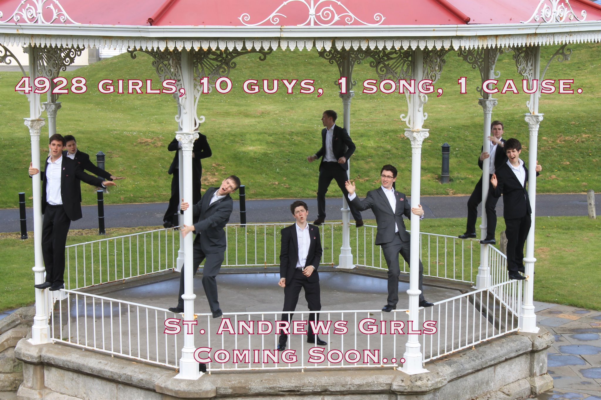 The Other Guys' St Andrews Girls Video Teaser